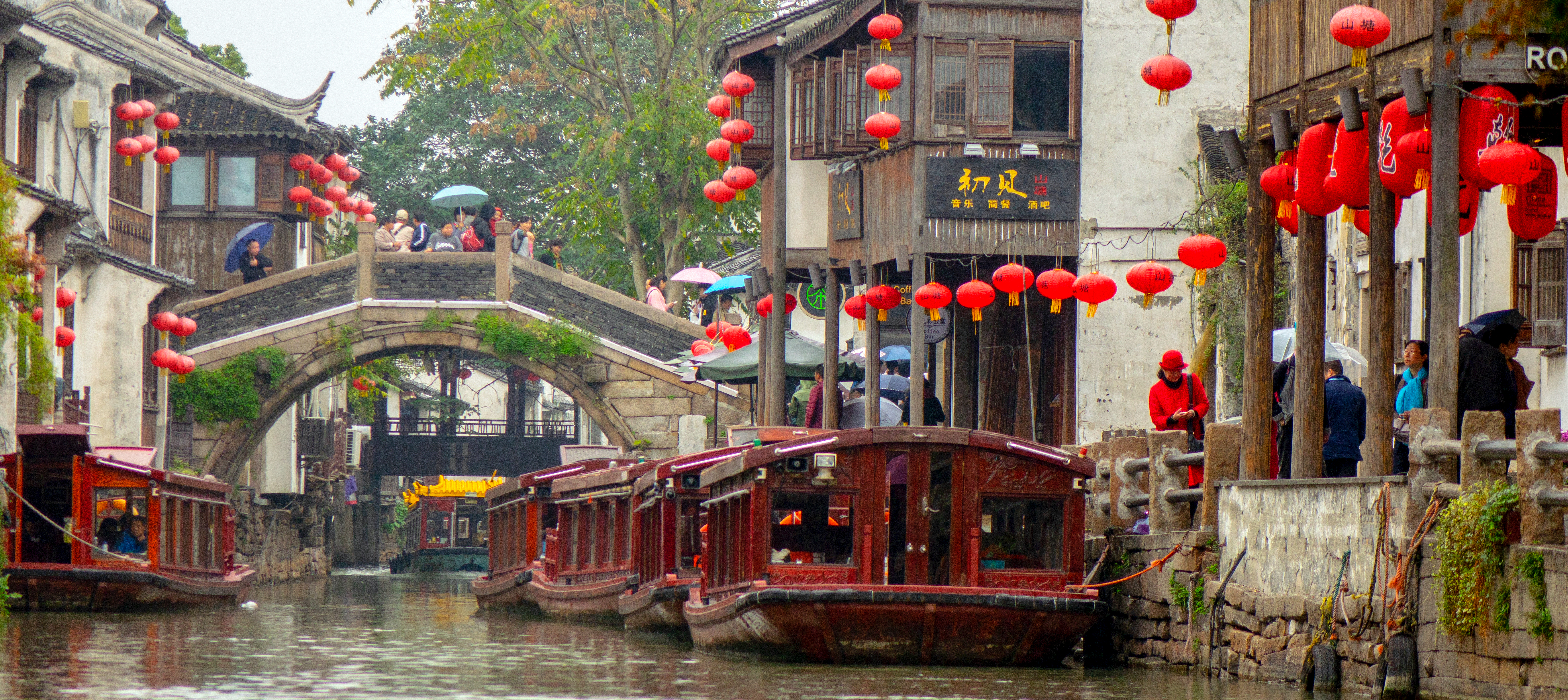 The city was called Venice of the East by Marco Polo because of its canals and stone bridges. Boat tours are offered to tourists.